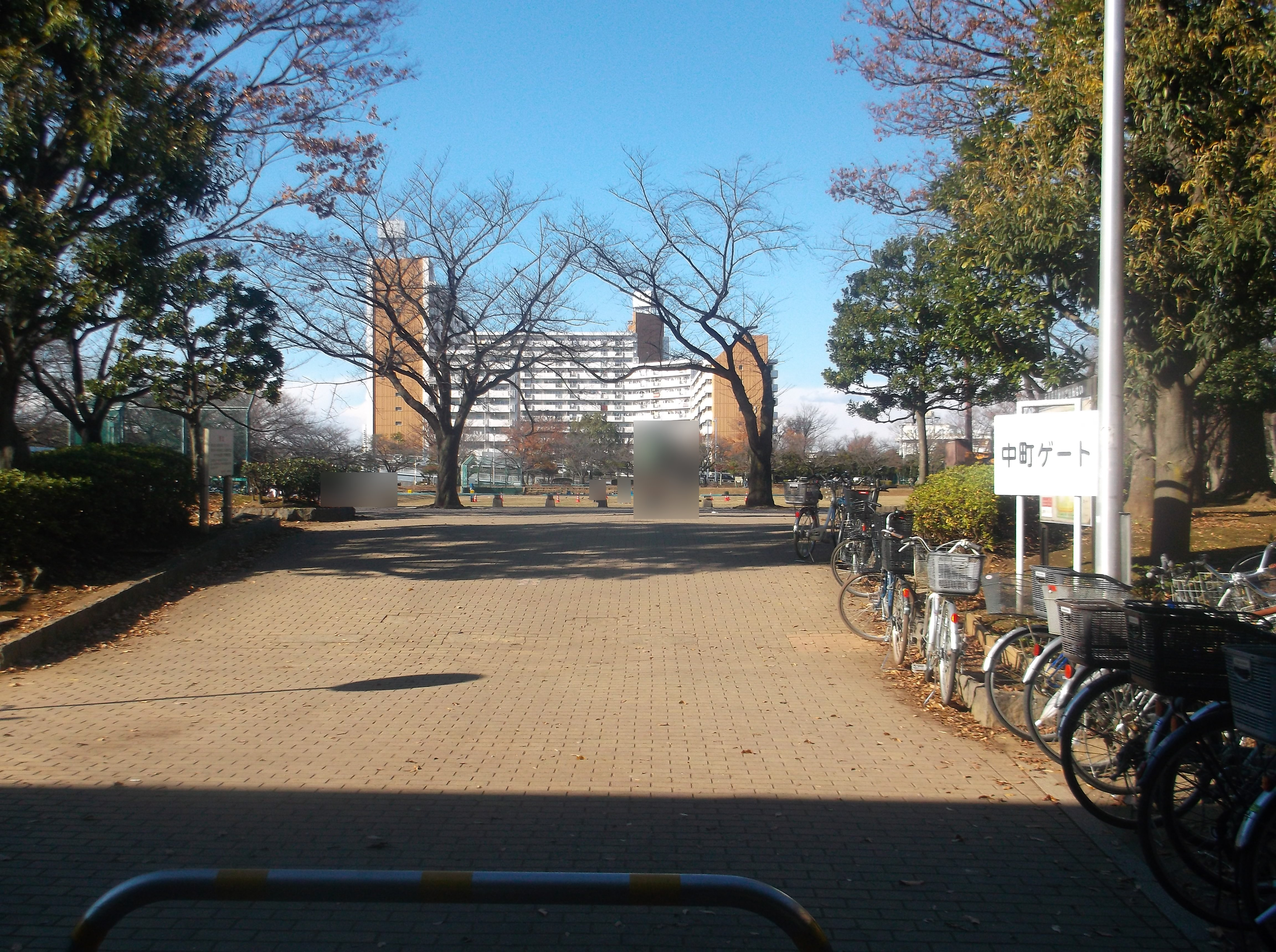 A photo of an entrance Shinkoiwa Park,Nishishinkoiwa,Katsushika-ku,Tokyo,Japan.